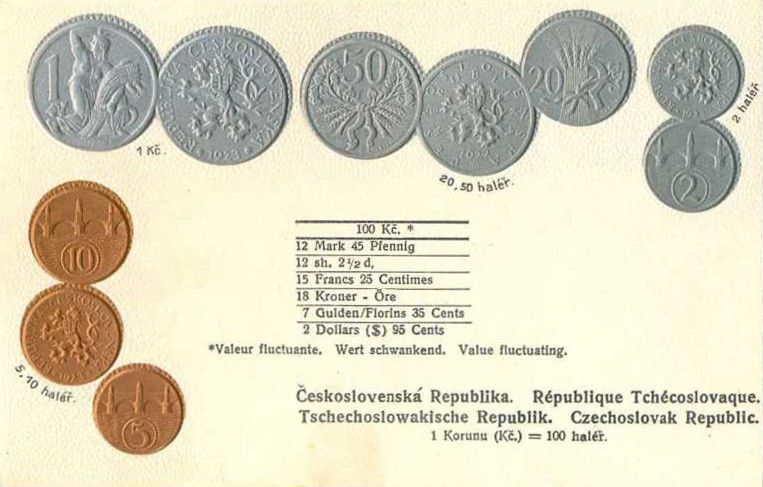 A postcard showing all the coins of Czechoslovakia (2 h was emitted in 1924, while missing here 5 Kč – in 1925)